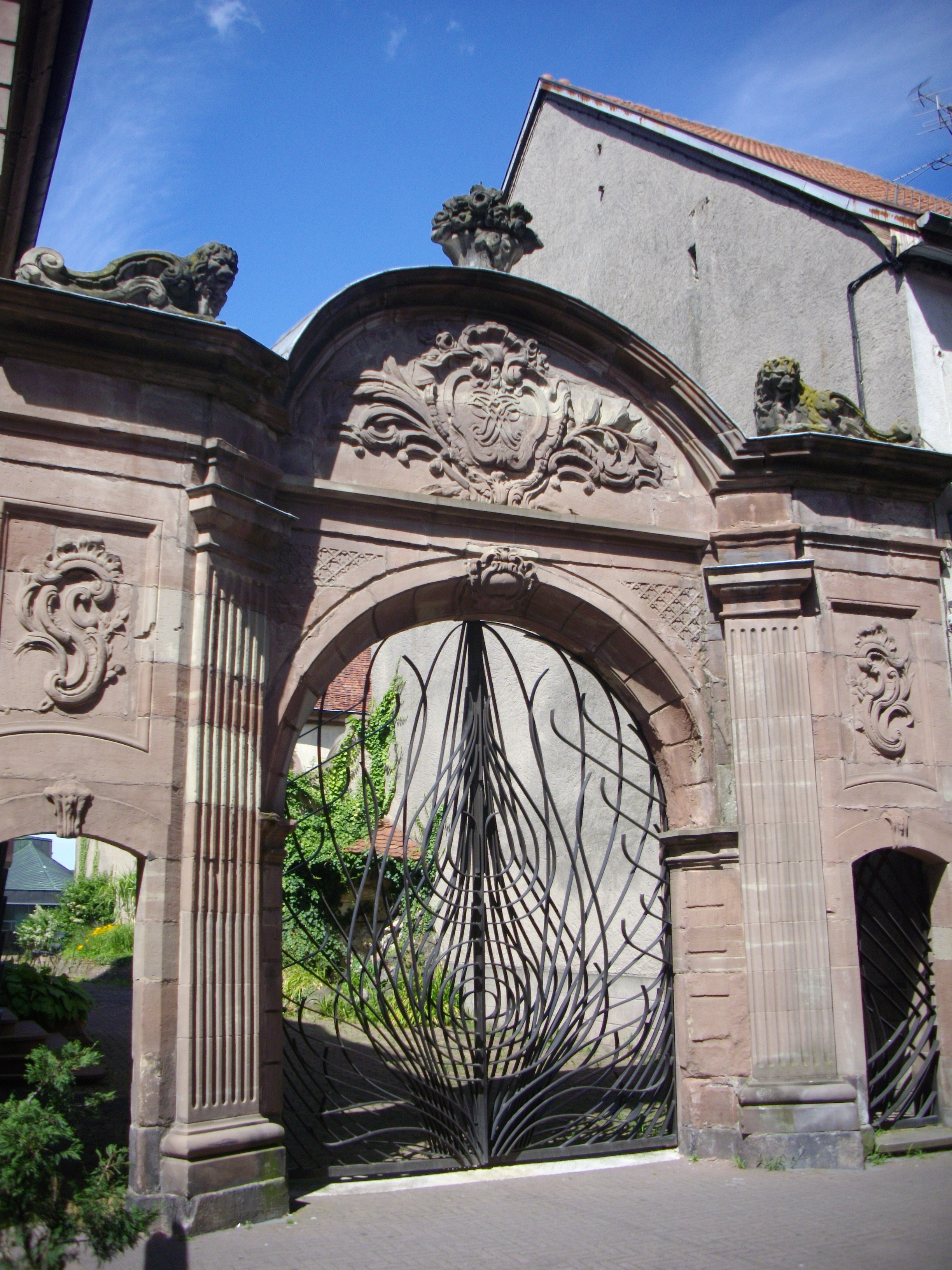 Portal of Saintignon hostel, current public library, Foch street in Sarrebourg (Moselle, France) .